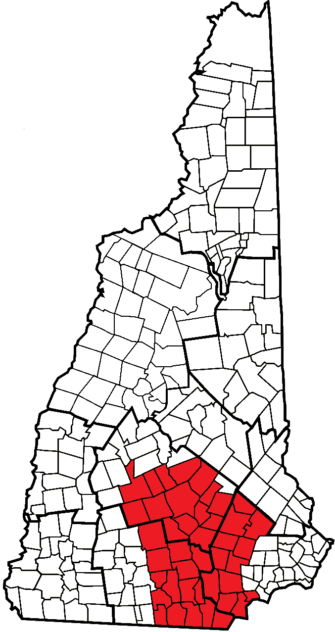 Map highlighting NH municipalities part of the Merrimack Valley region. Modification from File:New Hampshire municipalities.png